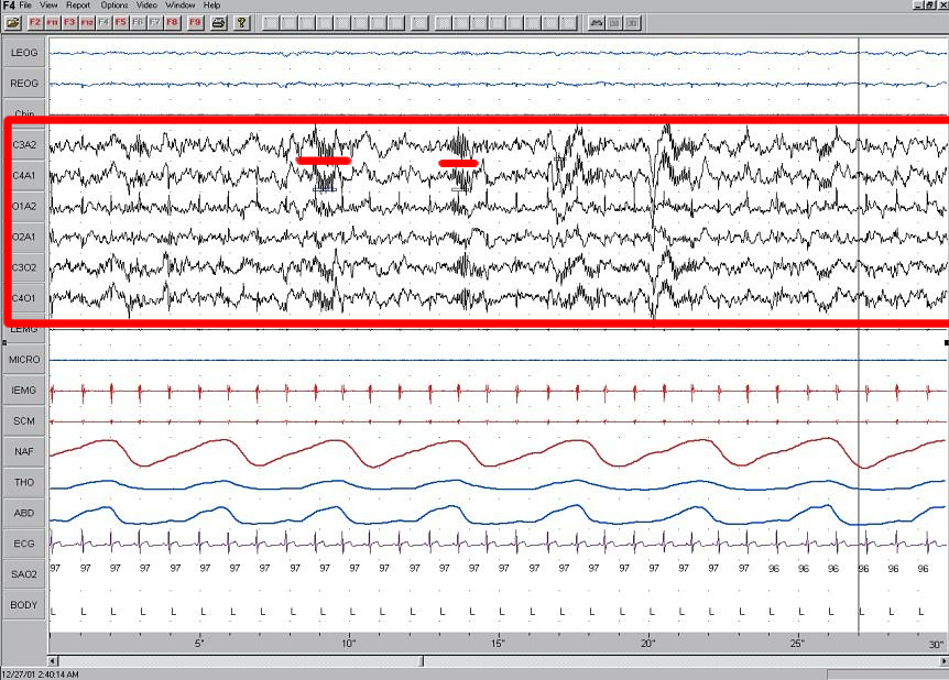 Stage 2 sleep. Sleep spindles highlighted by red line...EEG highlighted by red box.